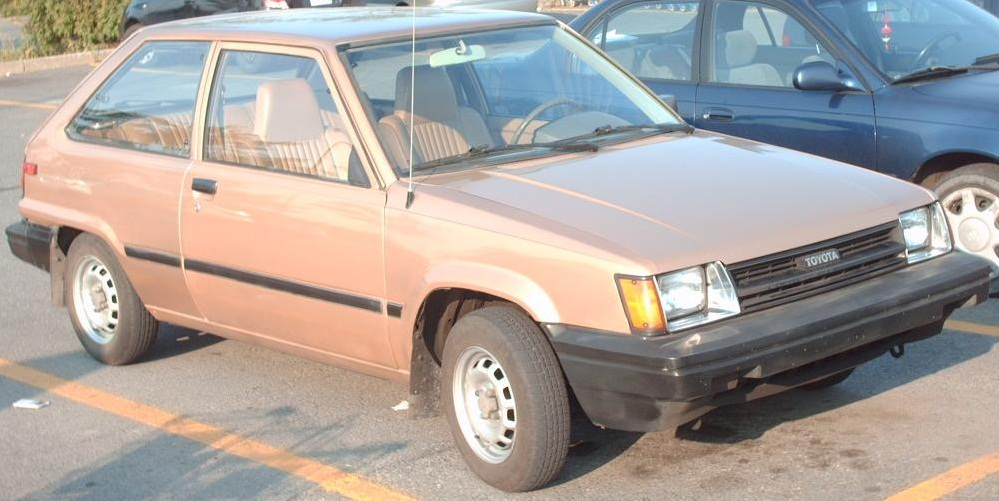 1985-1986 Toyota Tercel photographed in Montreal, Quebec, Canada.